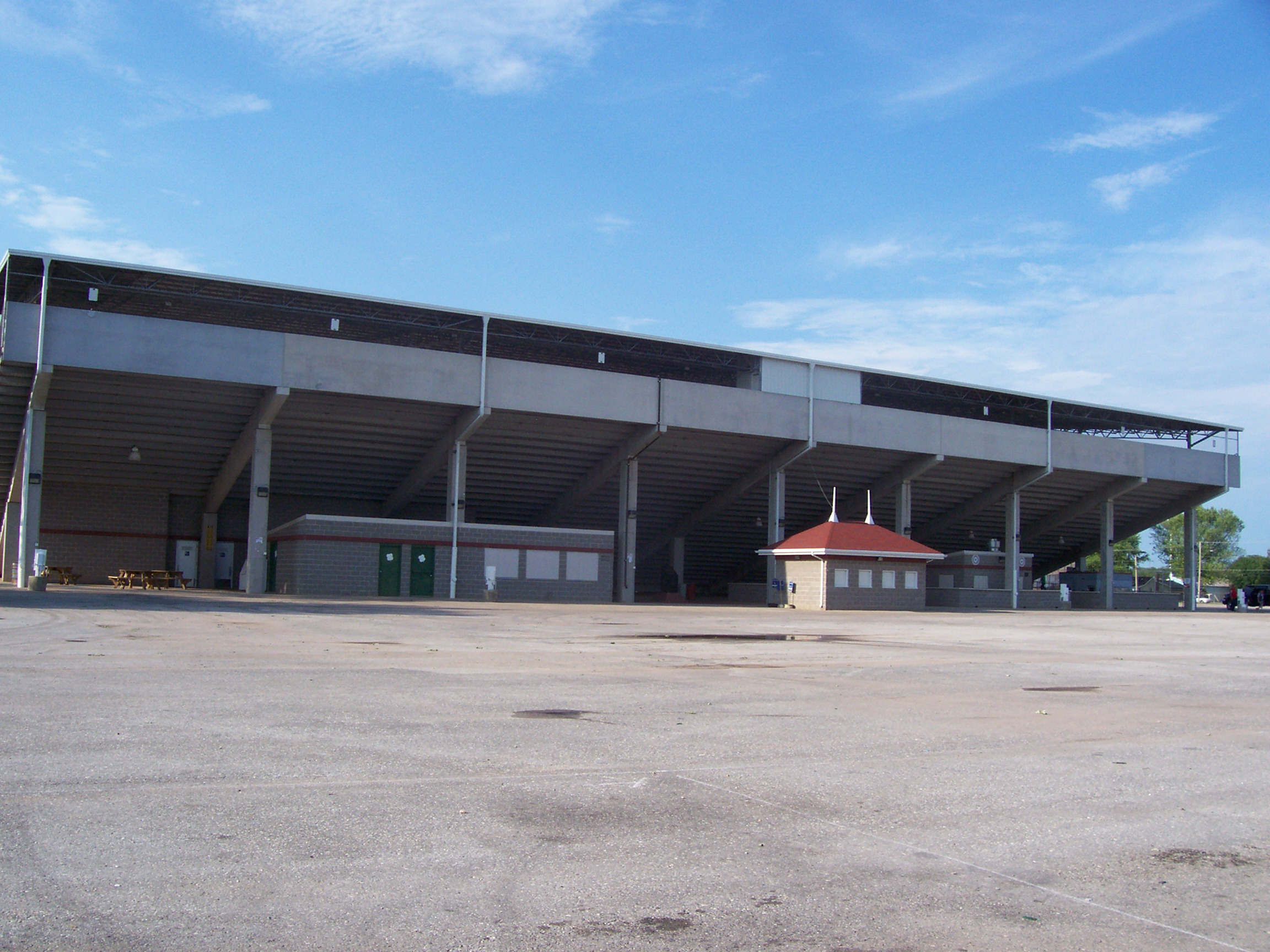 Outagamie County fairgrounds grandstand in Seymour, Wisconsin, USA, taken July 30, 2006 by myself.